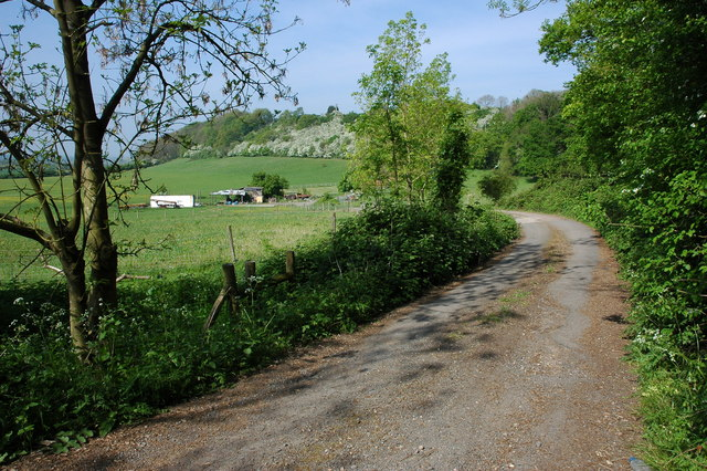 Badger's Hill Driveway to a house below Badger's Hill.